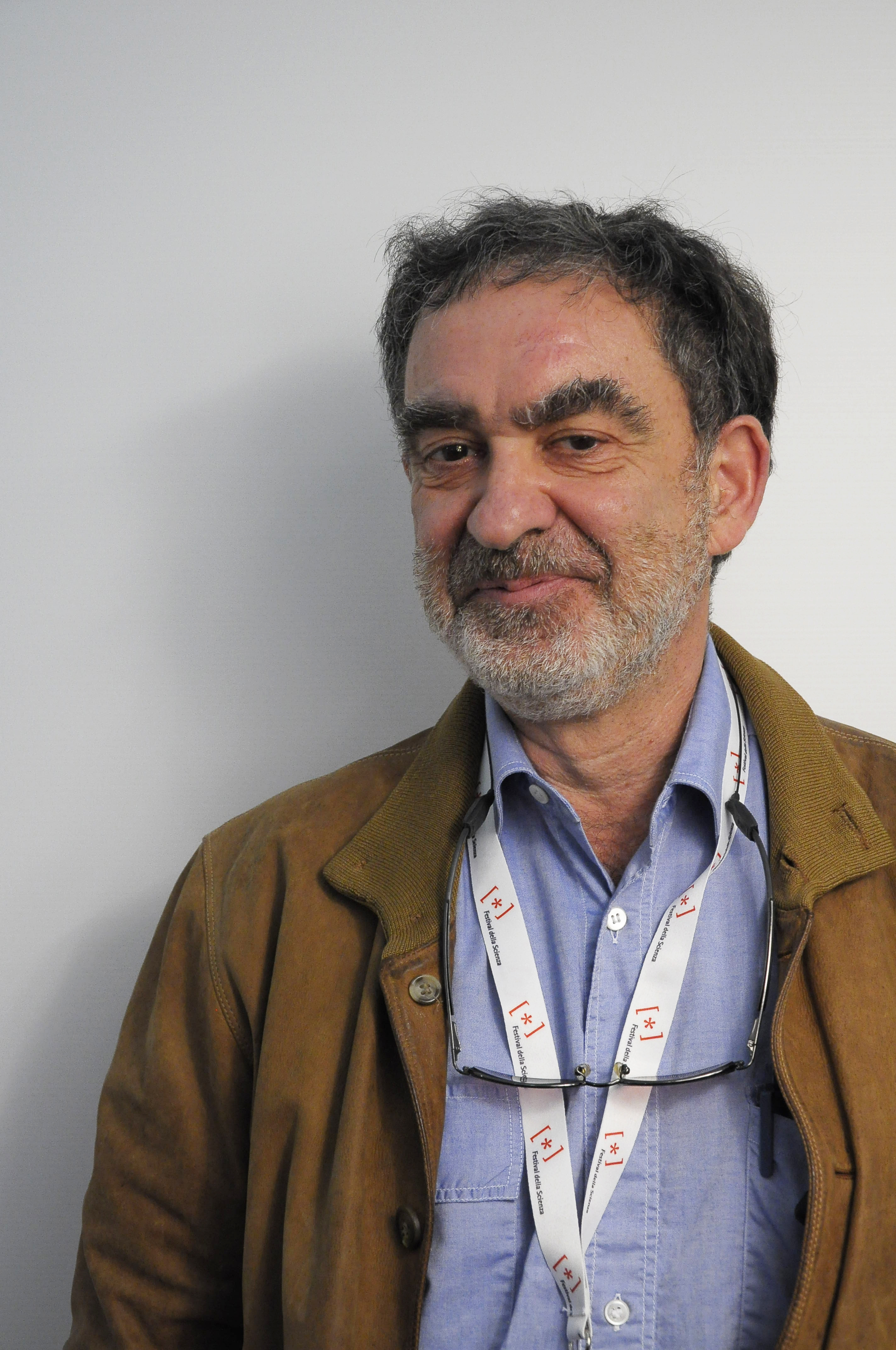 Italian physicist Tomaso Poggio. This picture was taken in Genoa, Italy, at the 2011 Festival della Scienza.